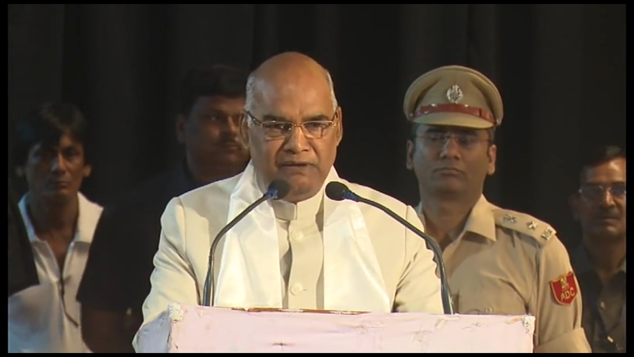 Ram Nath Kovind in his speech in anuvarat awards on 28.03.2017